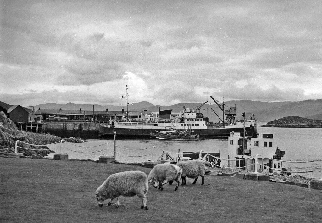 The Pier and Station at Kyle of Lochalsh. View eastward, into Loch Alsh, with Eileanan Dubha and Rubha Buidhe Point on right and mountains to the east of Loch Duich towards Glenaffric Forest, including the Five Sisters and Beinn a' Chuirn. The ship was probably on the services to Portree or Stornoway.